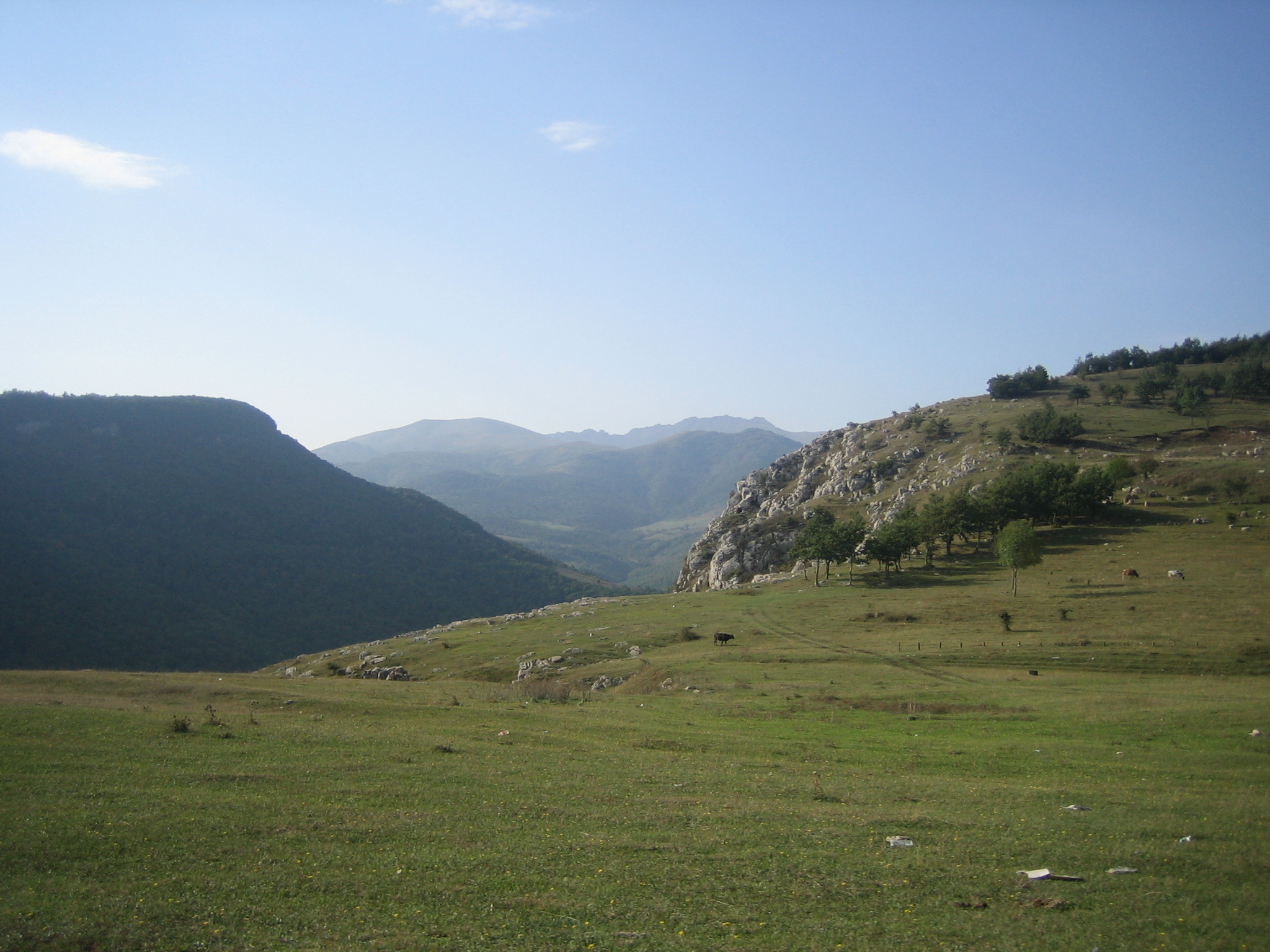 A view of the hilltop of Shushi, with sheer cliffs leading down to the village of Karintak below.